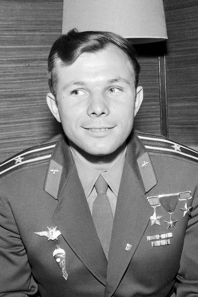 Photograph of the Soviet cosmonaut Yuri Gagarin at a press conference during his visit to Finland.